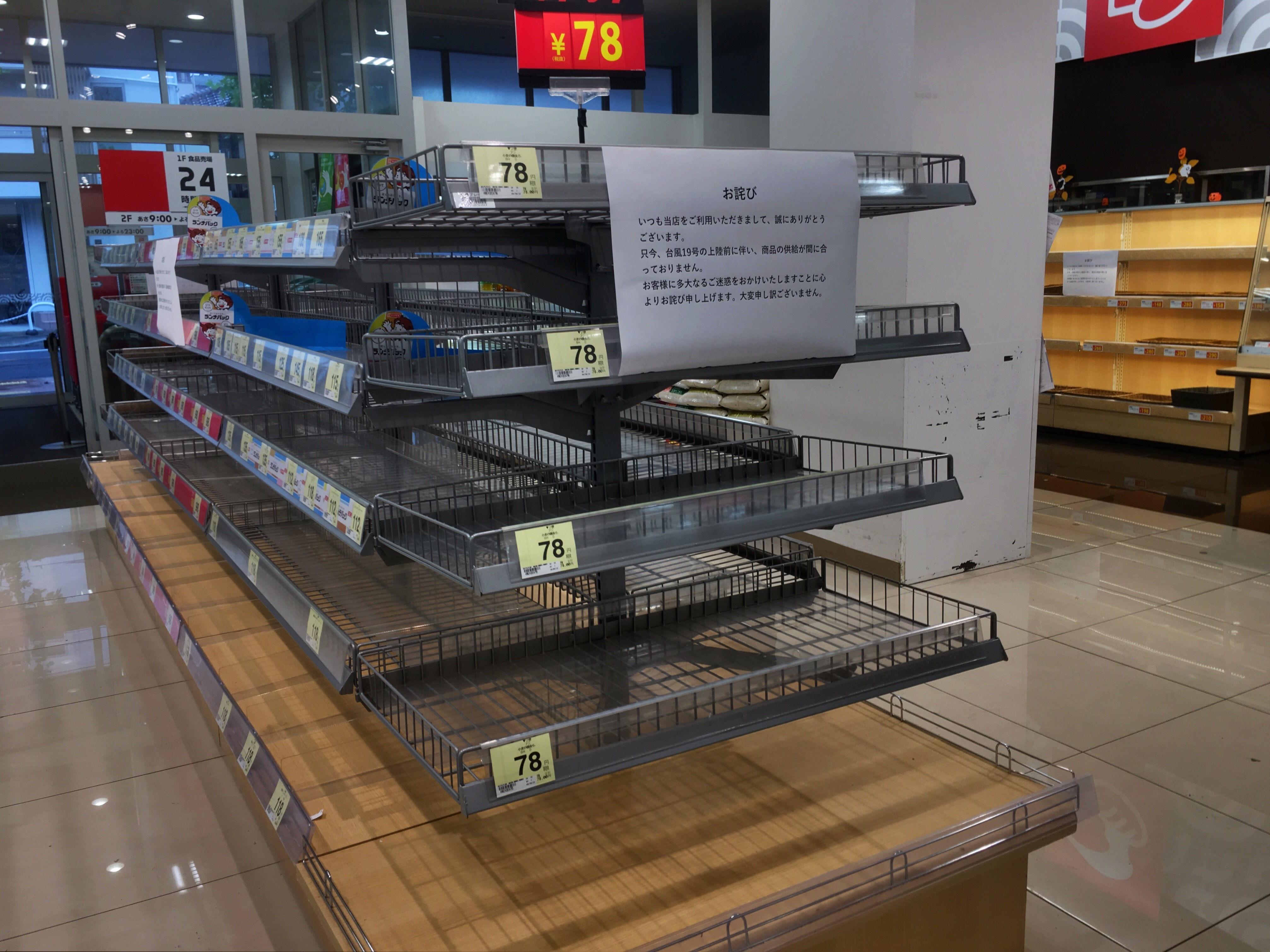 Empty shelves in Tokyo area as people get ready for typhoon Hagibis